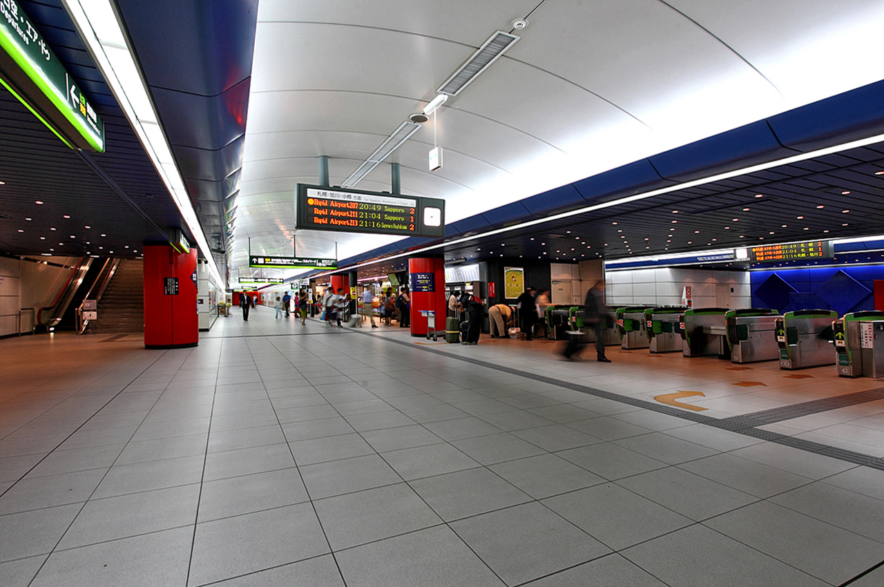 JAL Group / Skymark side concourse of New Chitose Airport Station